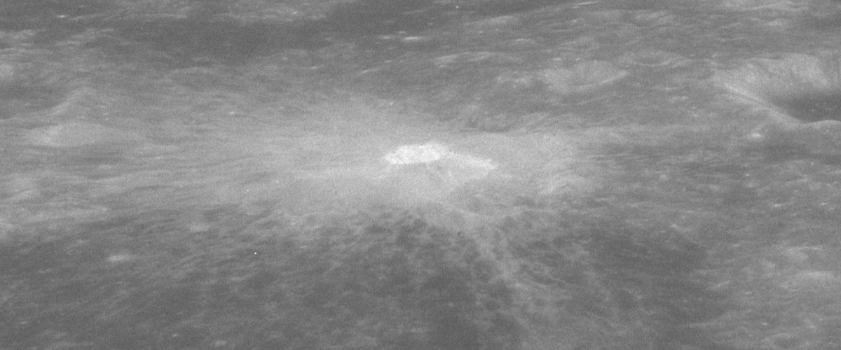 Highly oblique view of Petit, on the moon. Facing west. Image brightness and contrast were adjusted.